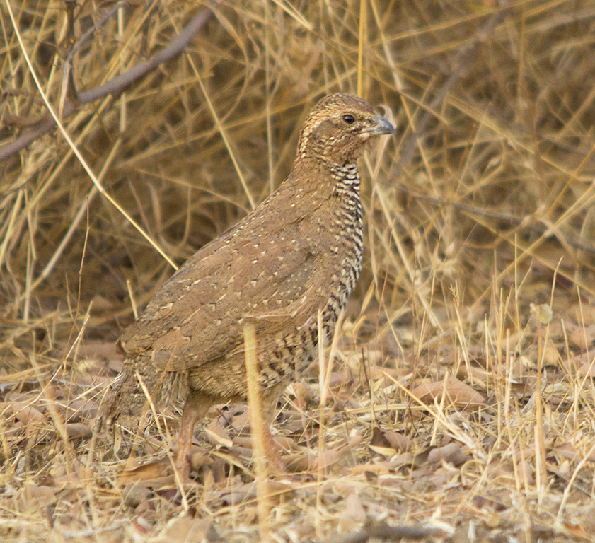 at Rajkot